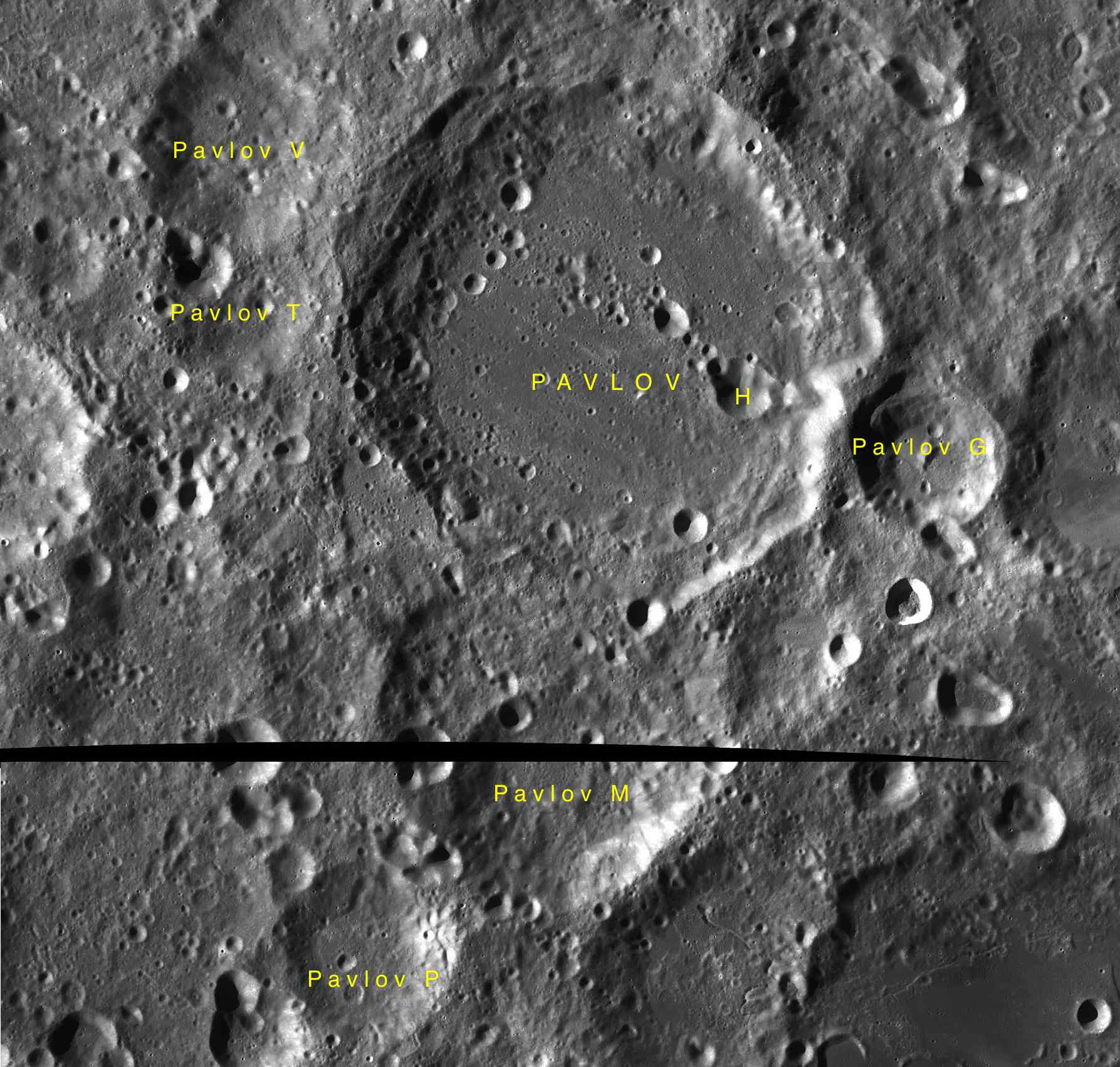 Parts of the charts LAC-102, LAC-118 used for the presentation